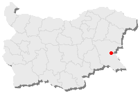 Map of Bulgaria, the red point is the position of Burgas.